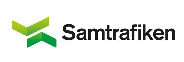 Logo of Samtrafiken